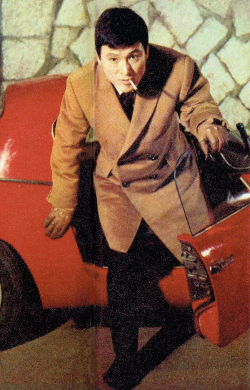 Jūzō Itami